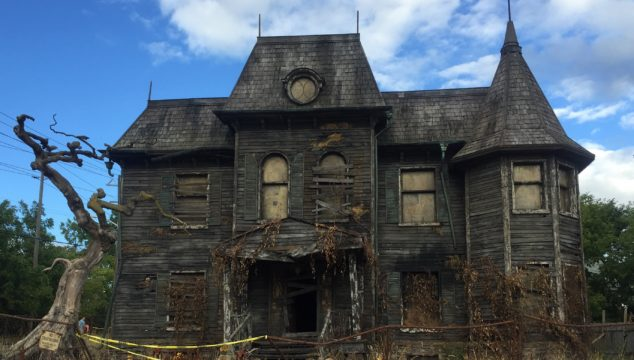 Set of the Neibolt Street House (in IT movies, by Andy Muschietti).